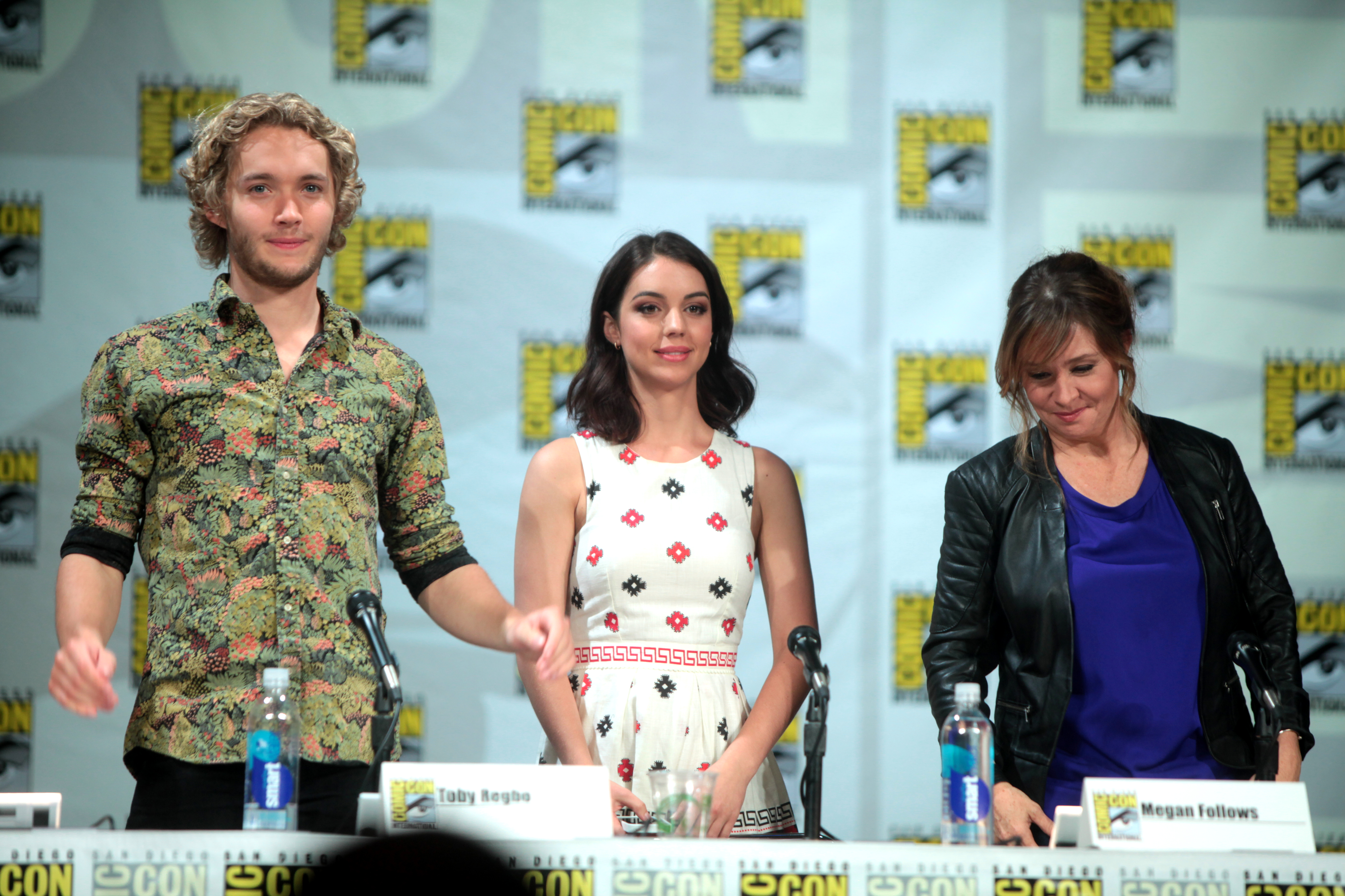 Toby Regbo, Adelaide Kane and Megan Follows speaking at the 2014 San Diego Comic Con International, for "Reign", at the San Diego Convention Center in San Diego, California.